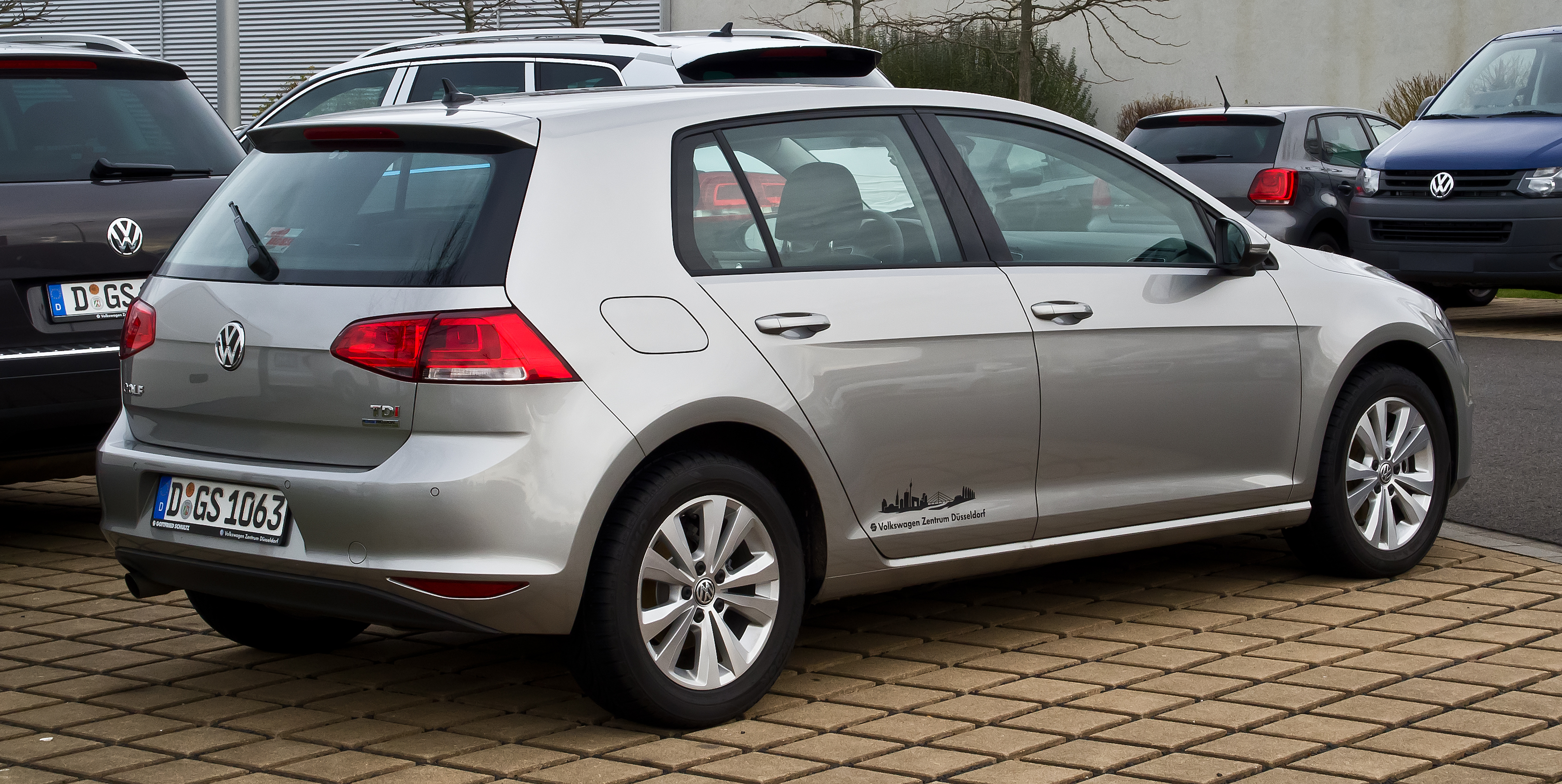 VW Golf 1.6 TDI BlueMotion Technology Comfortline (VII)